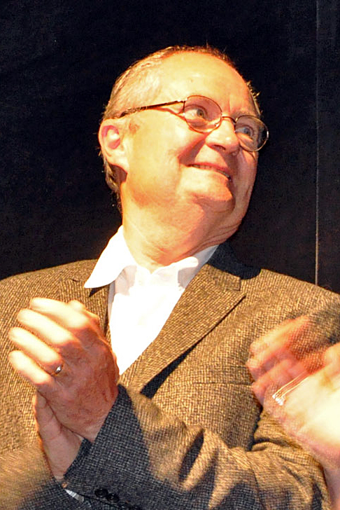 Jim Broadbent at the screening of Another Year at the 2010 Toronto International Film Festival